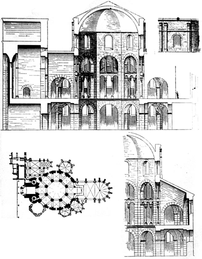 Palace chapel of Aachen